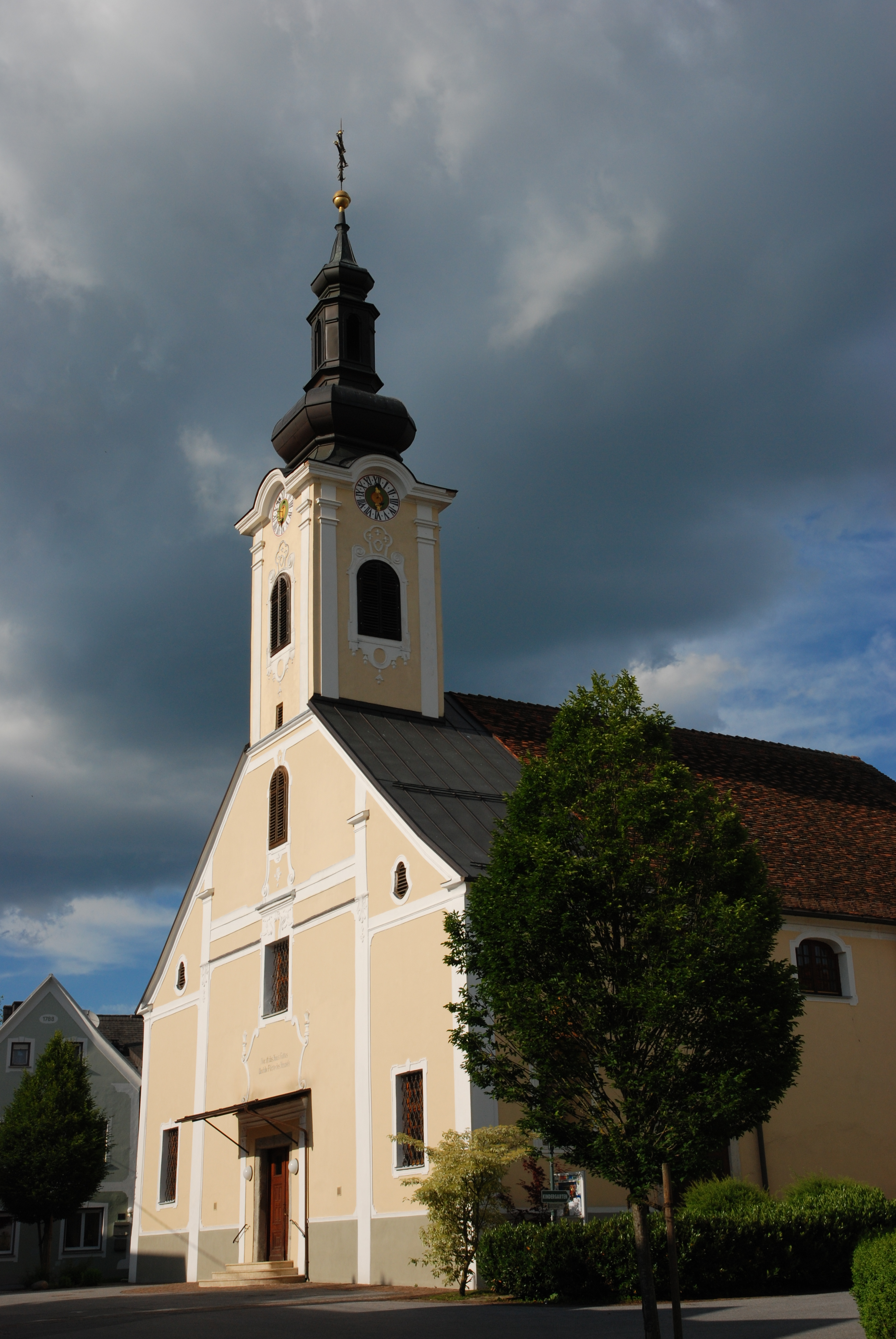 Church Großsteinbach